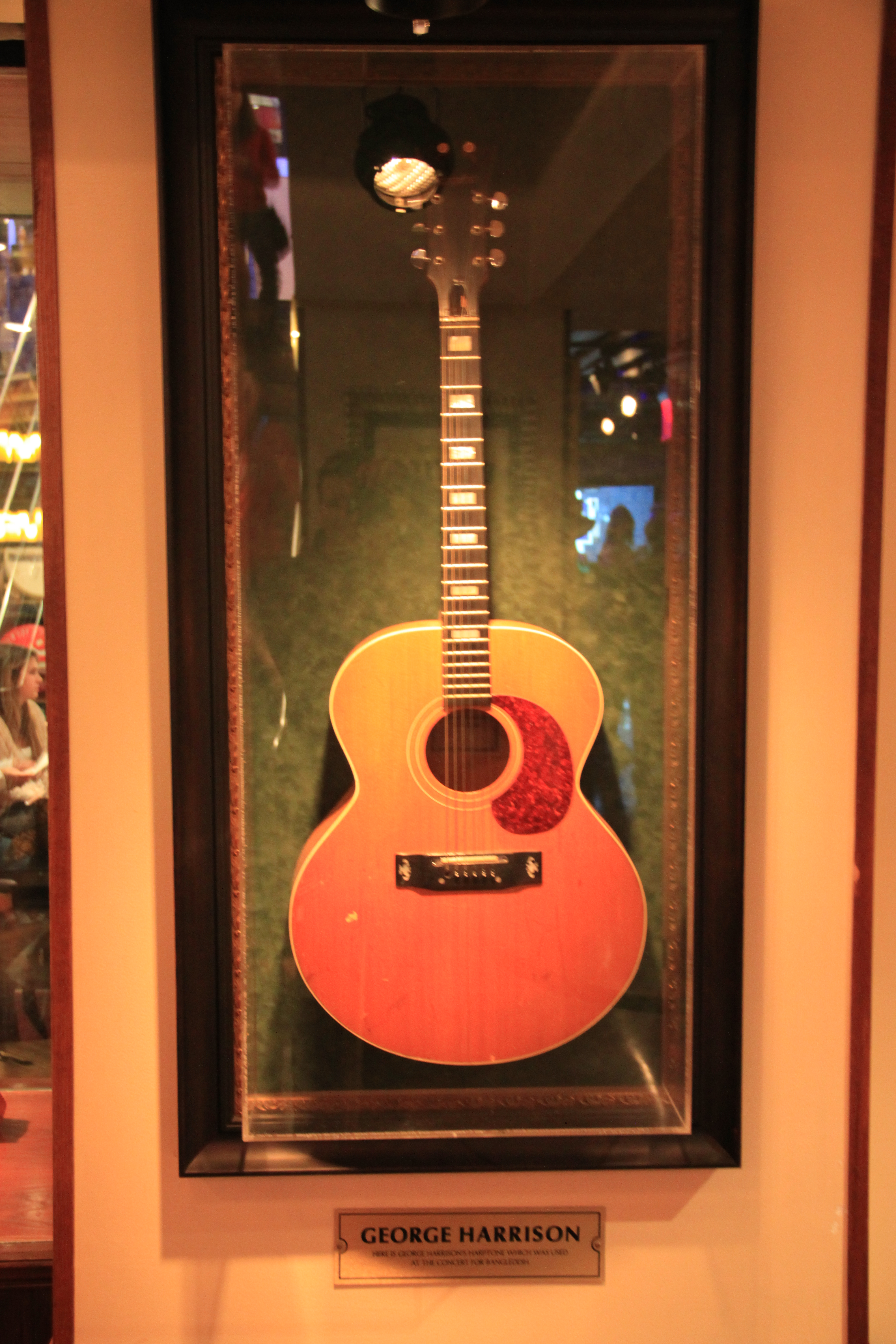 George Harrison's Harptone L-6 guitar which was used at the Concert for Bangladesh.